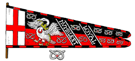 Heraldic Standard and badge of Sir Henry de Stafford, K.G., second son of Henry, second Duke of Buckingham (executed in 1483. It is charged, first, with a cross of St. George: then, on a field per fesse sable and gules (the colours of the Duke’s livery), the White Swan of the De Bohuns, with the silver Stafford-knot badge, differenced with a Crescent gules for Cadency; the Motto is HVMBLE: ET: LOYAL; and the fringe, of the same colours as the field, componée sable and gules. Note: Encyclopedia Britannica shows this standard with Stafford Knots in gold, but I have followed the written blazon from Boutell and colored them silver - PKM 20:49, 2 December 2007 (UTC)